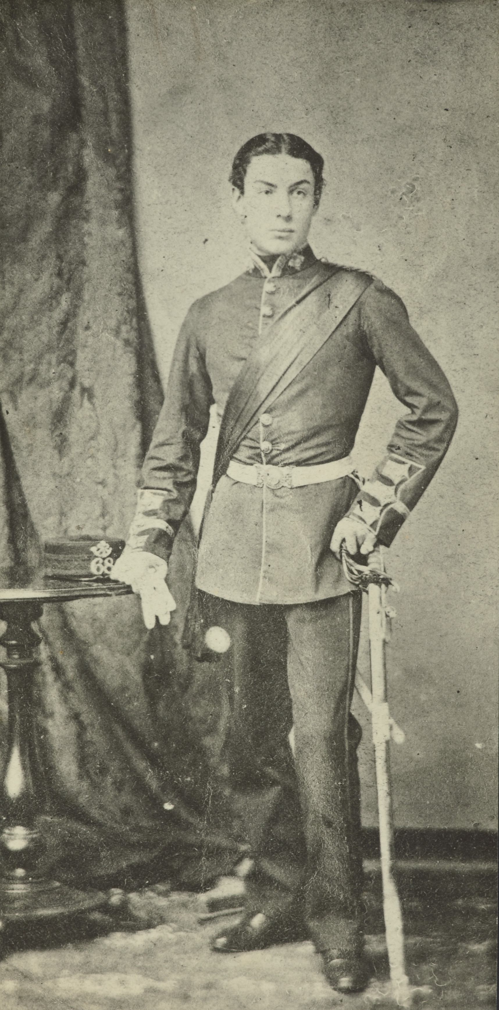 Robley, HG - Major General